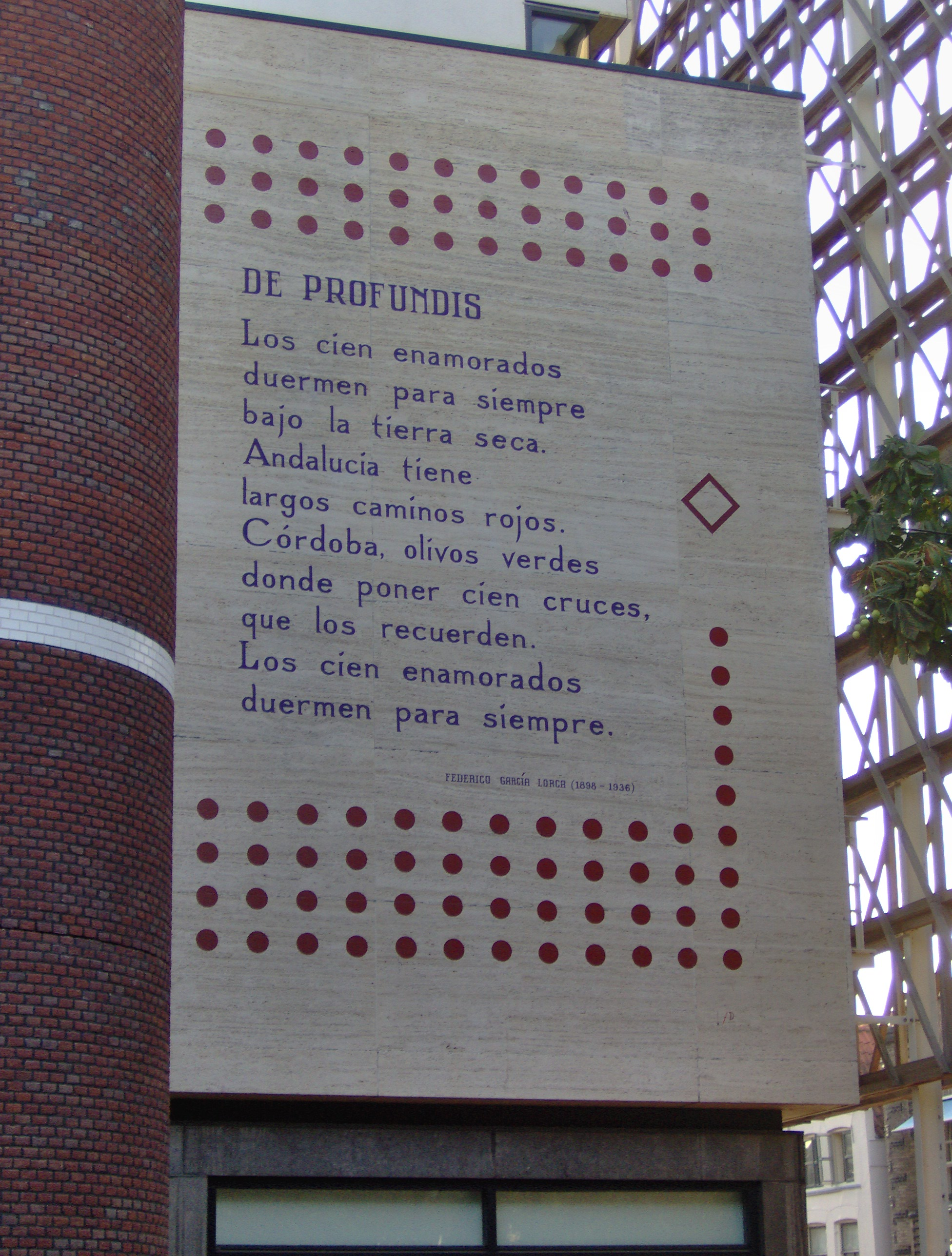 The poem De profundis of the Spanish poet Federico García Lorca on the eastern wall of the Kamerlingh Onnes Gebouw, at the corner of the Langebrug and the Zonneveldstraat in Leiden, The Netherlands.